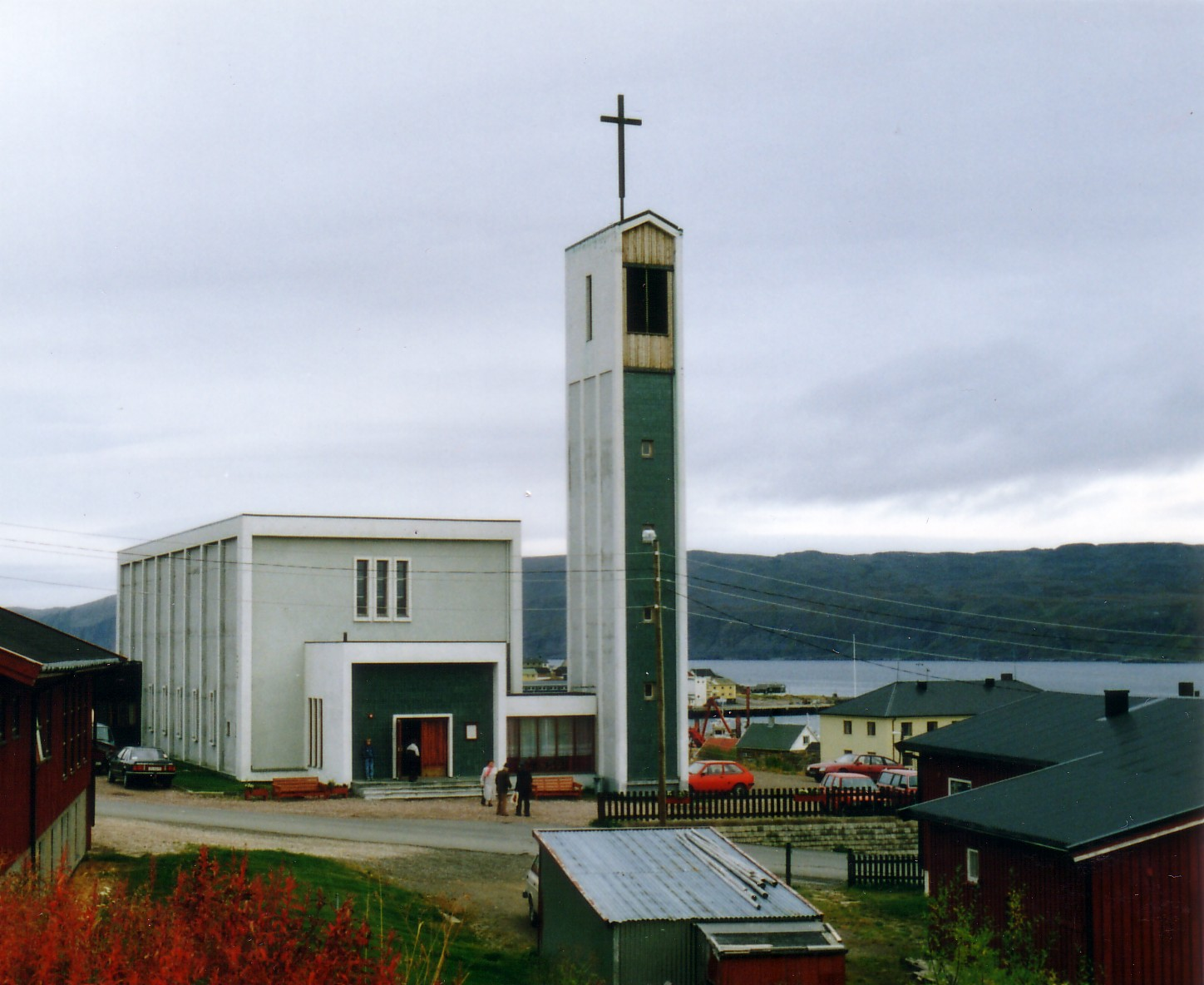 Båtsfjord Church in Båtsfjord, Finnmark, North Norway